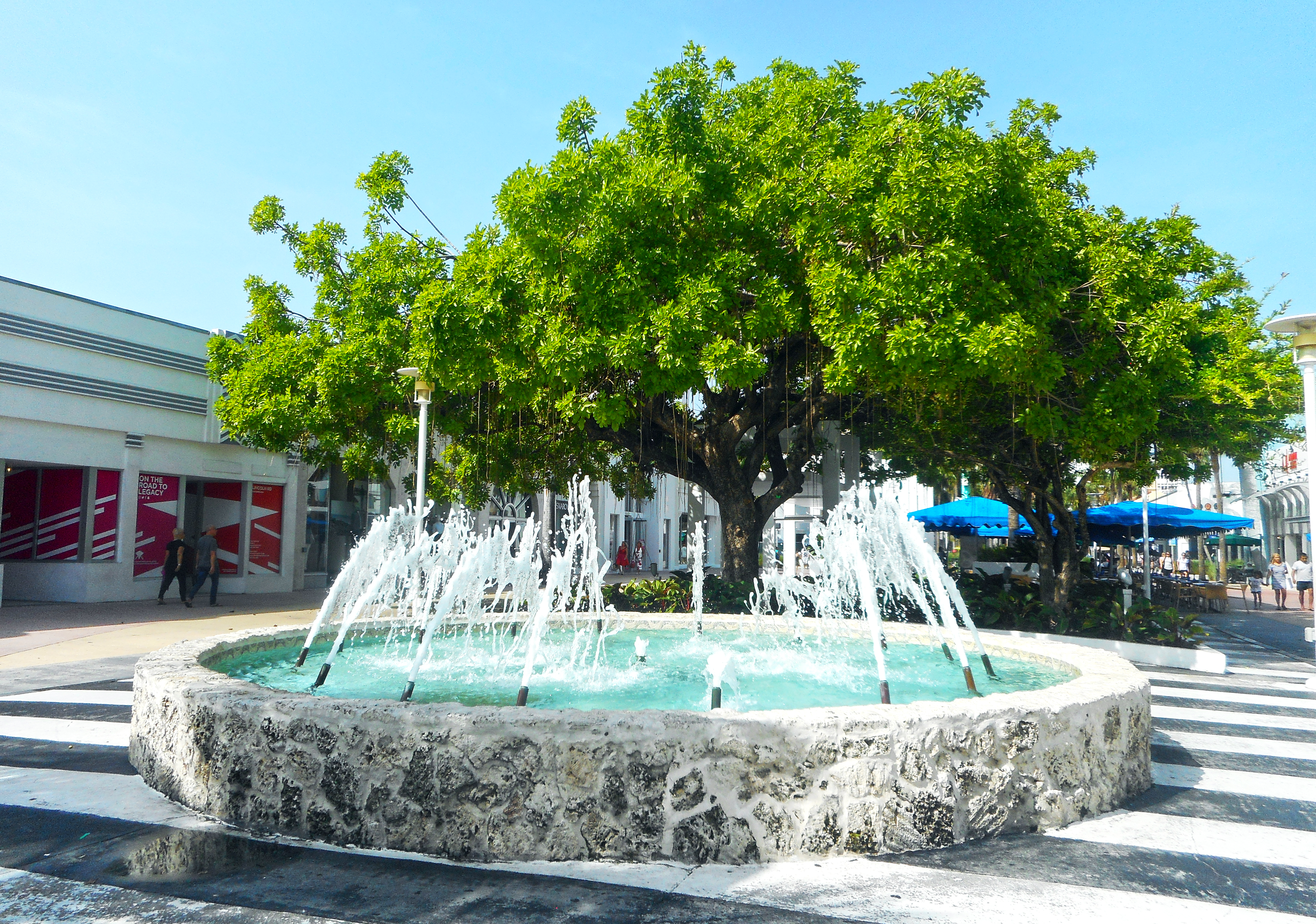 Lincoln Road Mall